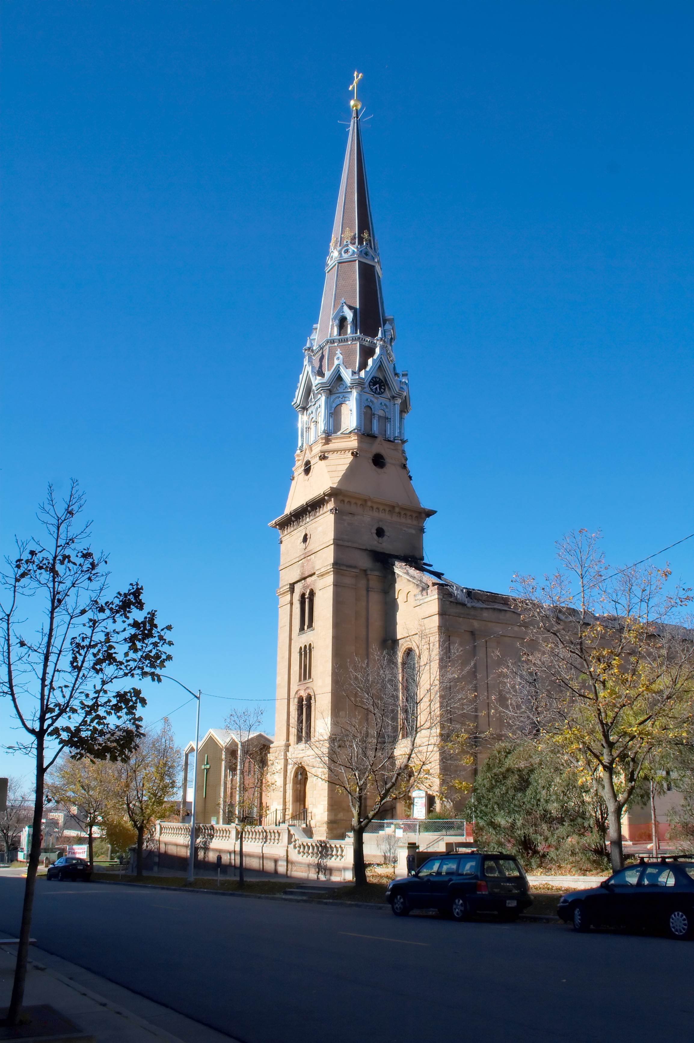 Taken in Madison, Wisconsin